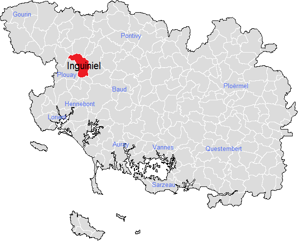 placement Inguiniel in departement Morbihan